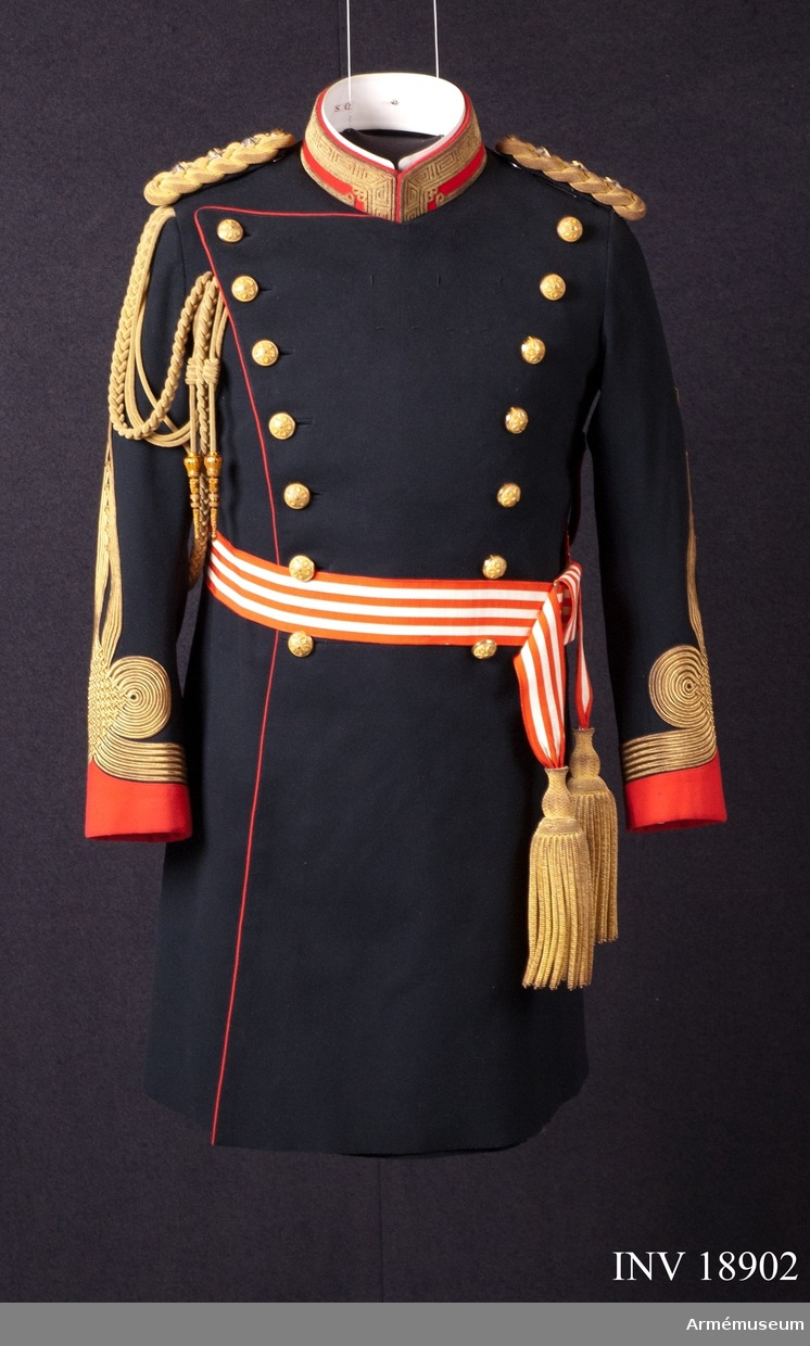 Parade uniform of Japanese military attaché, Major General Onodera Makoto, 1930s, donated by him to Armemuseum, Stockholm, Sweden in 1945